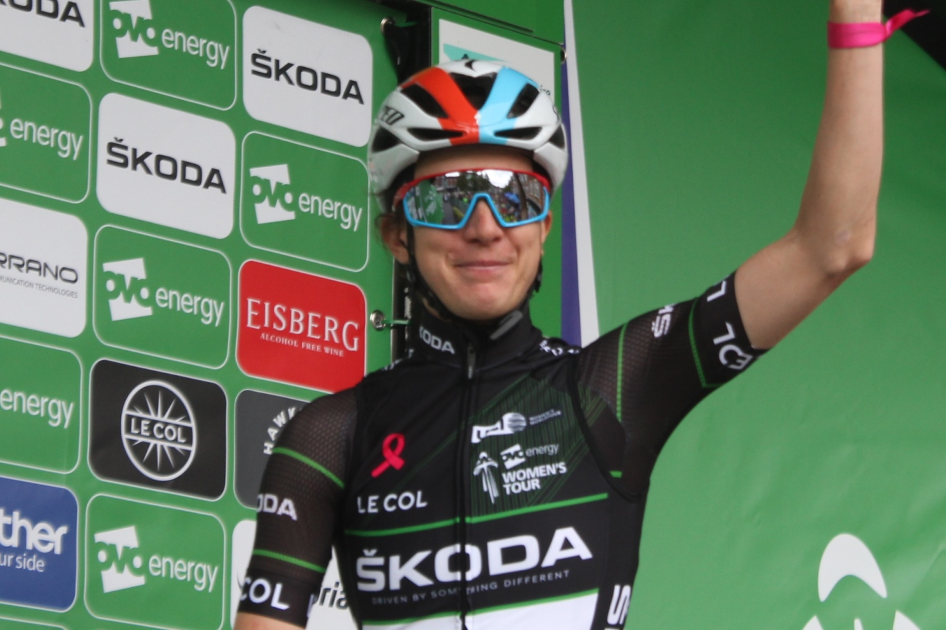 Christine Majerus in the Queen of the Mountains jersey for the 2019 Women's Tour.